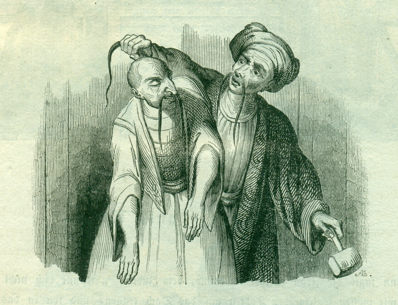 Woodcut